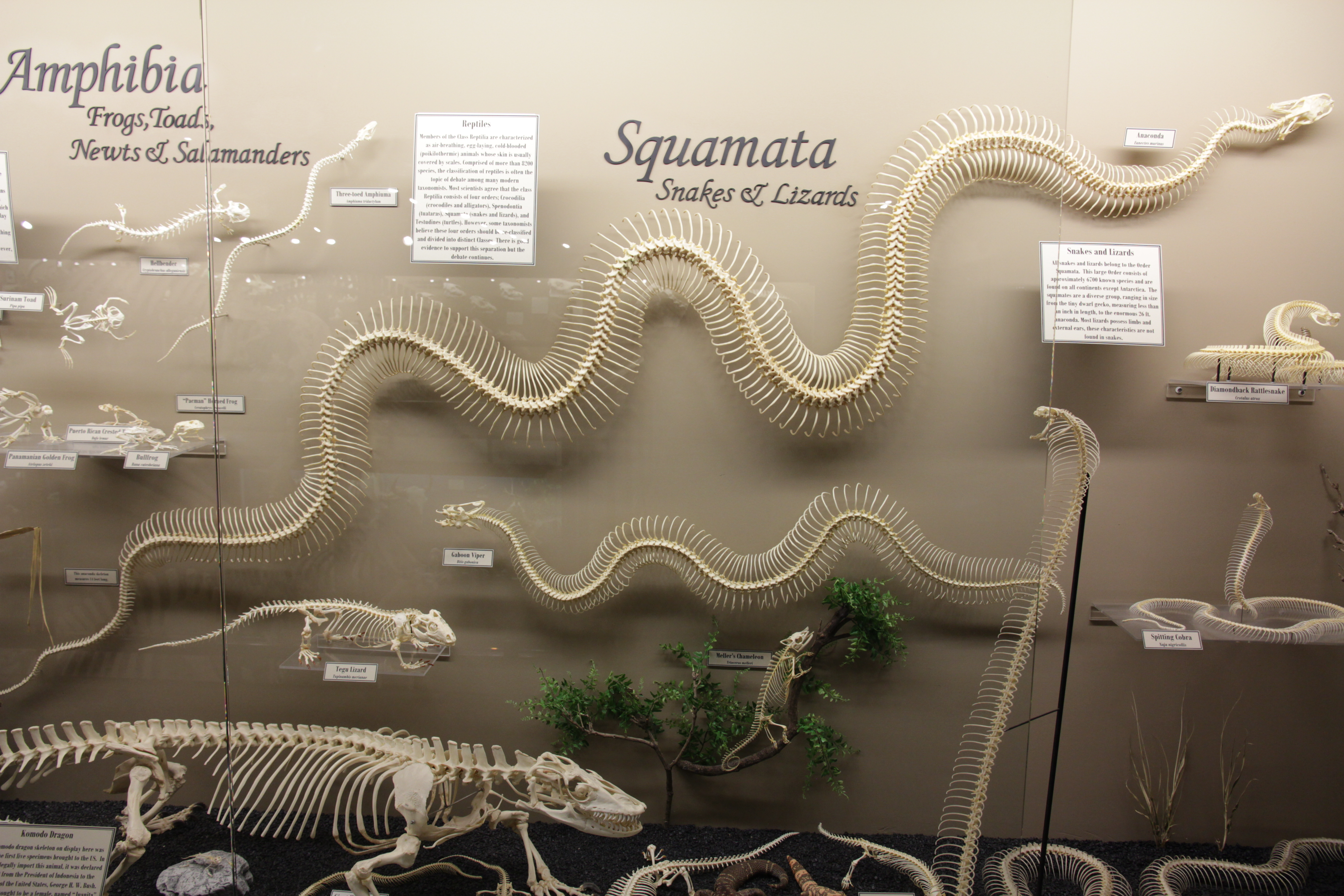 Anaconda skeleton (center) with other snake, reptile and amphibian species for size comparison